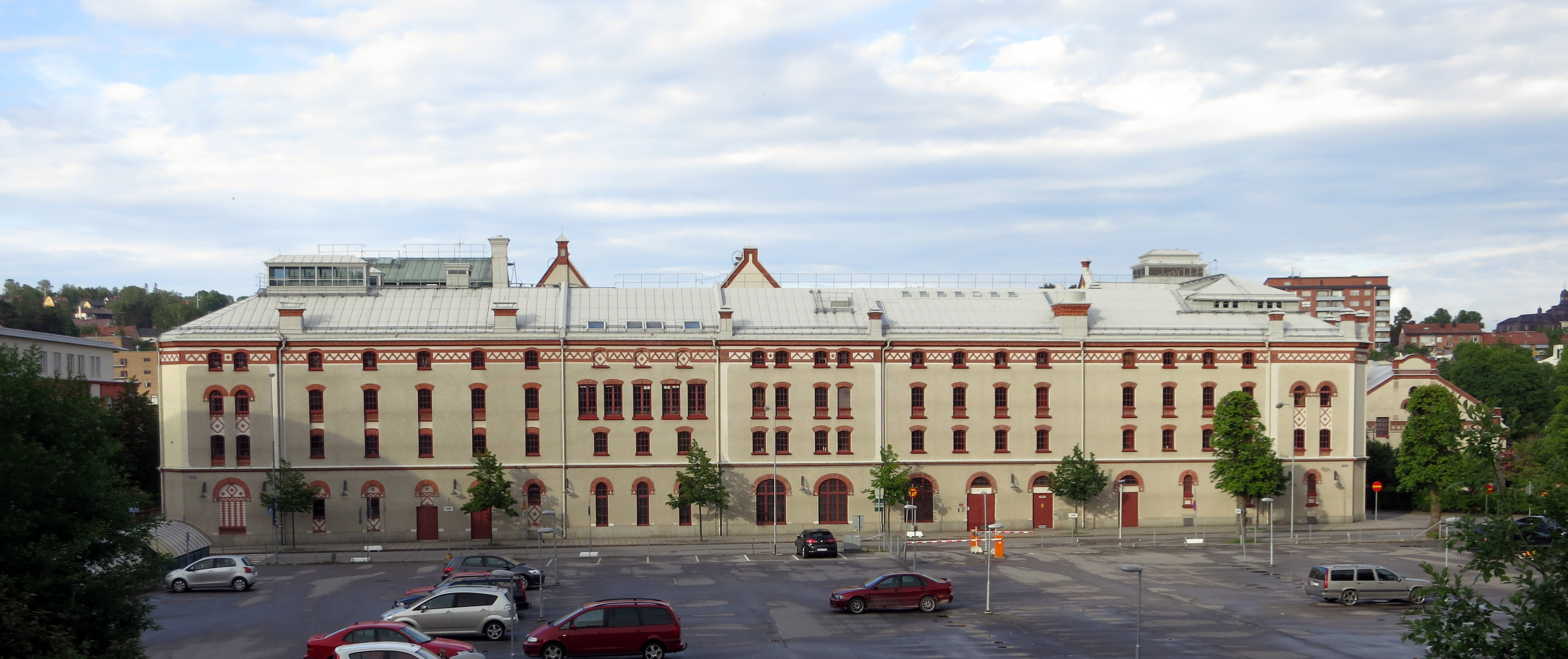 The former brewery building faces Storgatan to the West